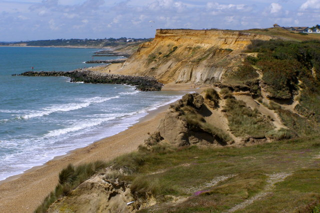 Coastline east of Barton on Sea In the foreground the cliff is broken by the lower end of Becton Bunny chine, coming in obliquely from the right. Beyond that are the taller cliffs at the east end of Barton-on-Sea, with rock armour at their base and the start of the groynes.